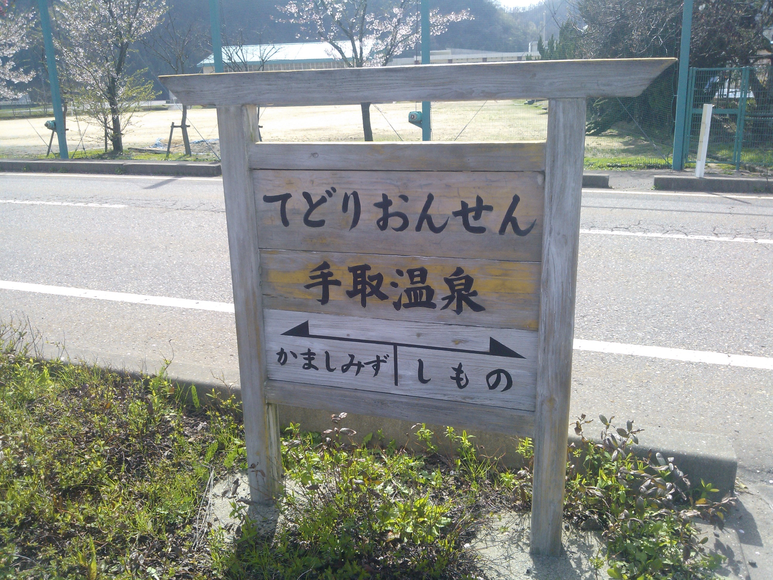 Modern sign at the site of the disused Tedorionsen station on the disused Hokutetsu Kinmei line railway. Now part of the Tedori Canyon Road cycle path.